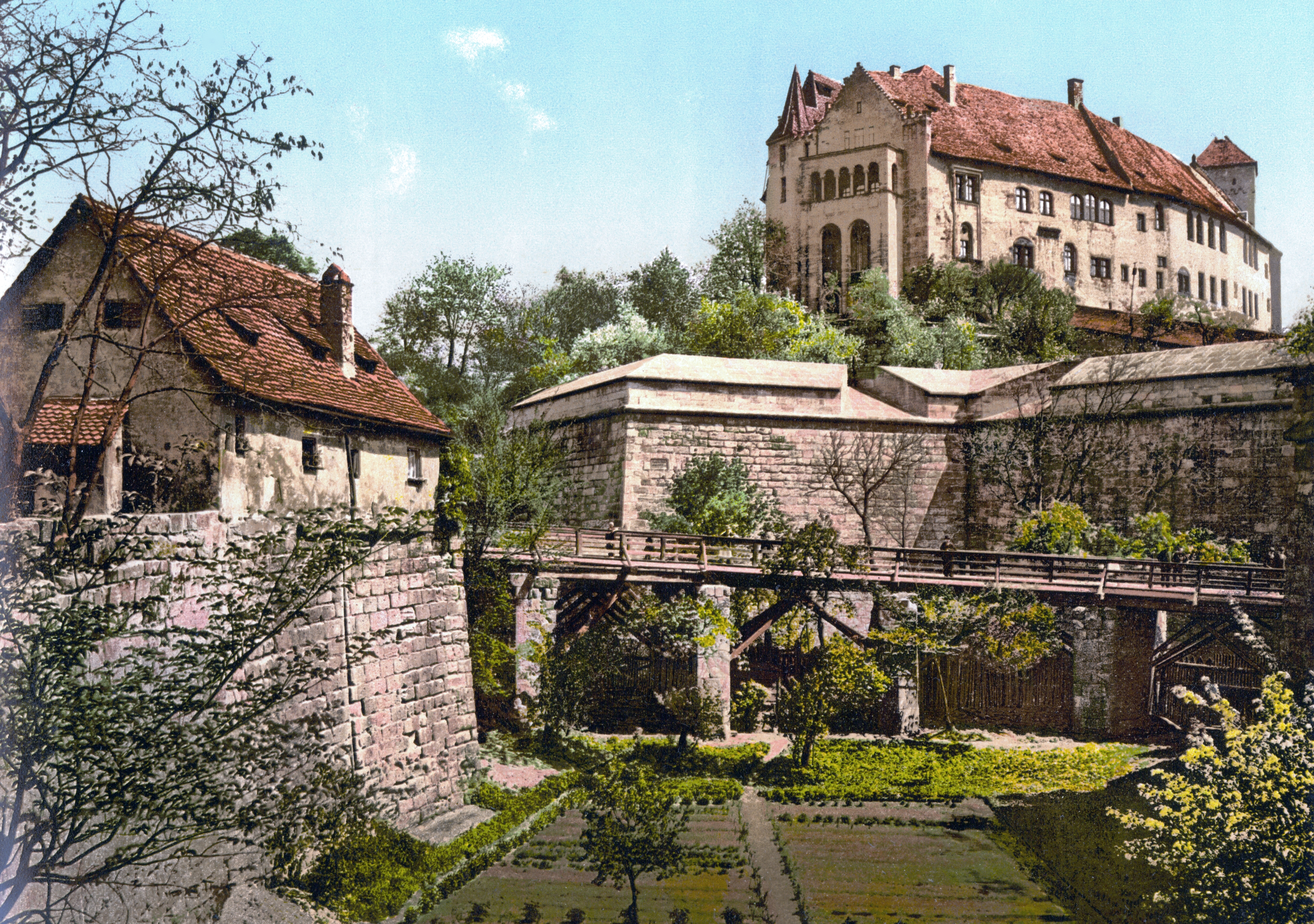 Nuremberg Castle, western aspect